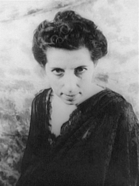 Milena Pavlović-Barili Photographer: Carl Van Vechten. Silver geletin print, 1940 Portrait of Milena (Barilli)